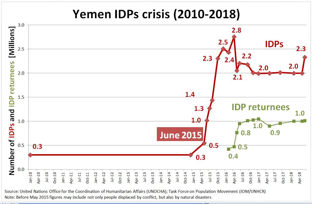 Yemen IDPs crisis (modified after: Shanta Devarajan, Lili Mottaghi: The Economic Effects of War and Peace ( Middle East and North Africa (MENA) Quarterly Economic Brief, International Bank for Reconstruction and Development /The World Bank, Issue 6, Washington, DC., January 2016, ISBN (electronic): 978-1-4648-0822-7 (PDF) ( Yemen: Humanitarian Snapshot (12 April 2016) [EN/AR] ( reliefweb.int (UN Office for the Coordination of Humanitarian Affairs), 12 April 2016 (PDF ( Yemen: 2017 Humanitarian Needs Overview [EN/AR] ( reliefweb.int (UN Office for the Coordination of Humanitarian Affairs, UN Country Team in Yemen), 23 November 2016 (PDF ( Original: Yemen: 2017 Humanitarian Needs Overview ( UN Office for the Coordination of Humanitarian Affairs, UN Country Team in Yemen, November 2016; Yemen: Humanitarian Response Plan 2017 - January-December 2017 [EN/AR] ( (United Nations Office for the Coordination of Humanitarian Affairs), 7 February 2017 (PDF) (